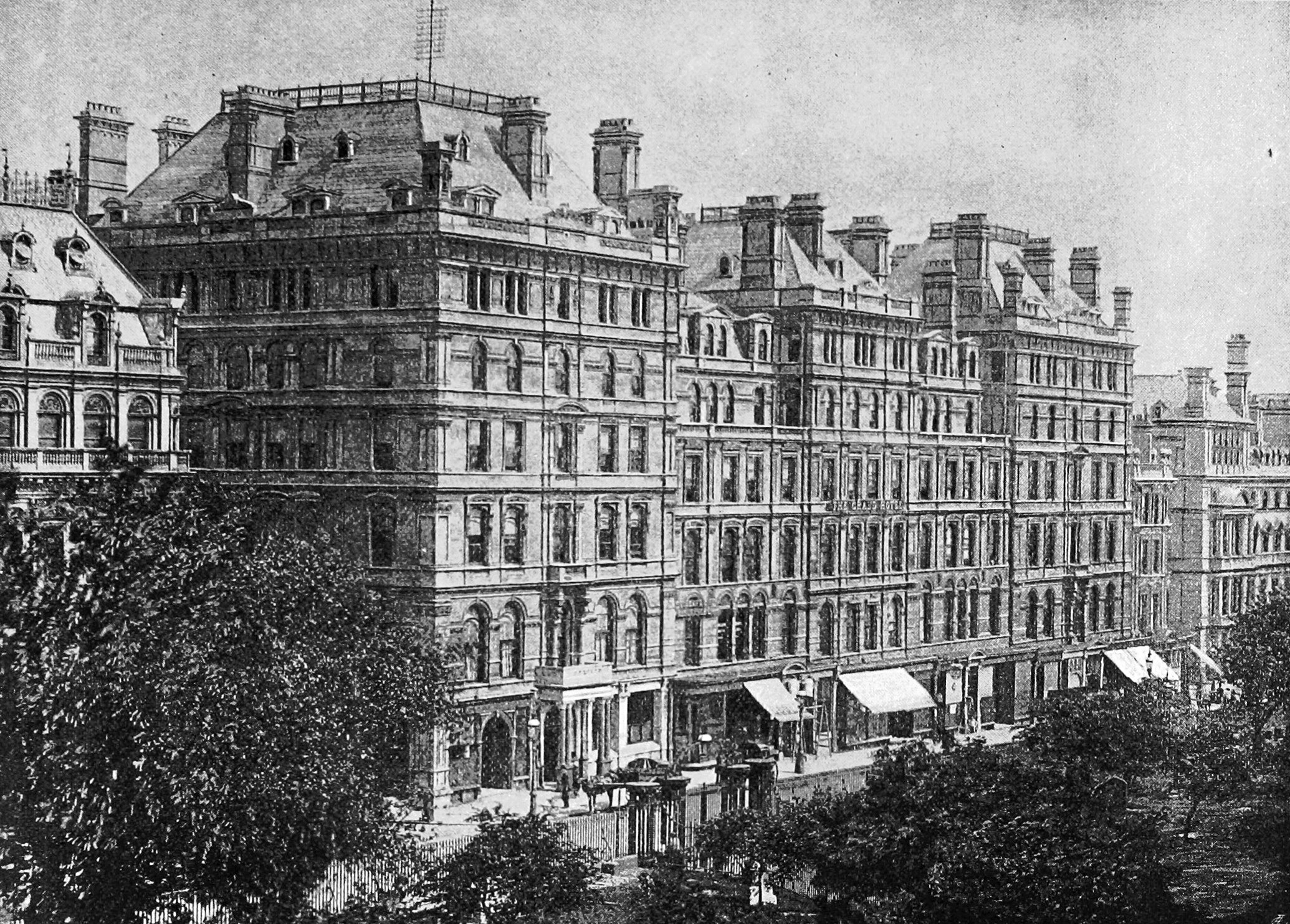 Colmore Row from St Philips Churchyard (1894)